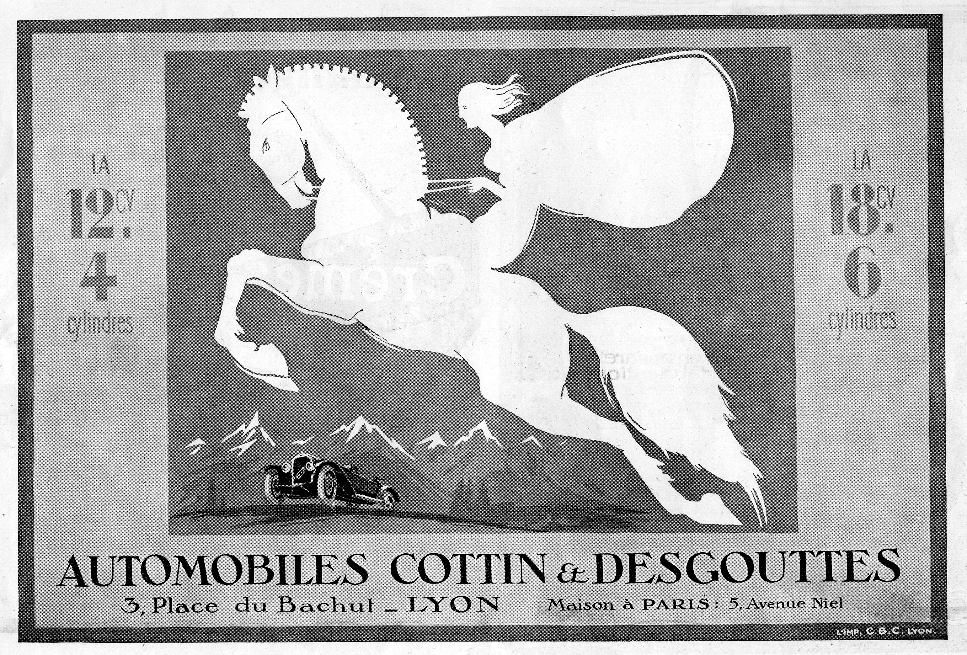 Cottin_&_Desgouttes advertisement of 1923